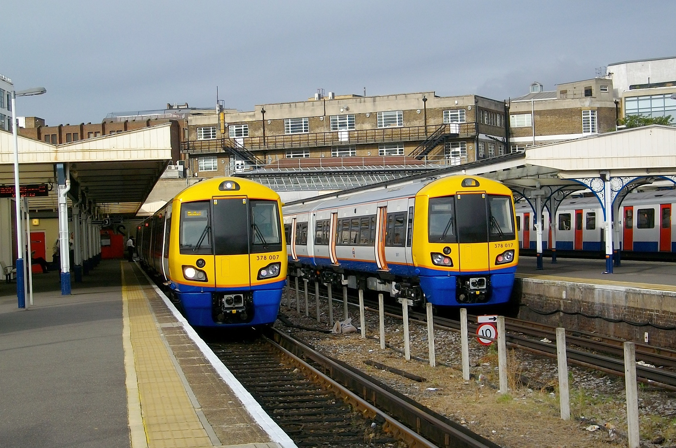 A pair of brand new London Overground Bombardier Class 378/0 Capitalstar EMUs No. 378007 and 378017, stand side by side each other, at Richmond.